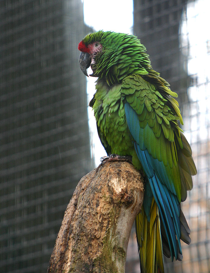 Military Macaw